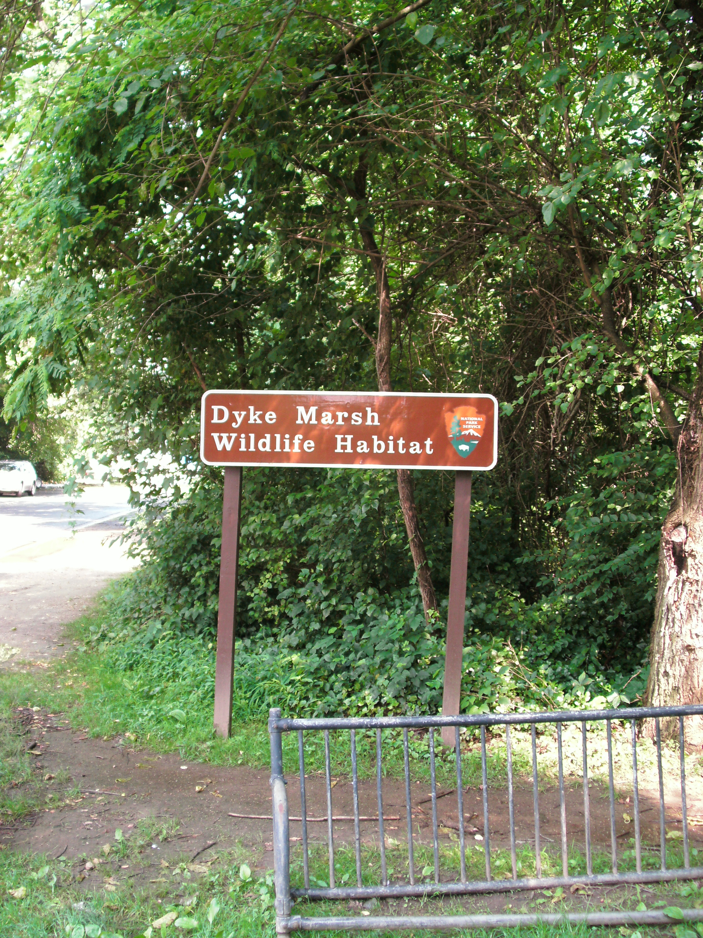 Image I took for Wikipedia